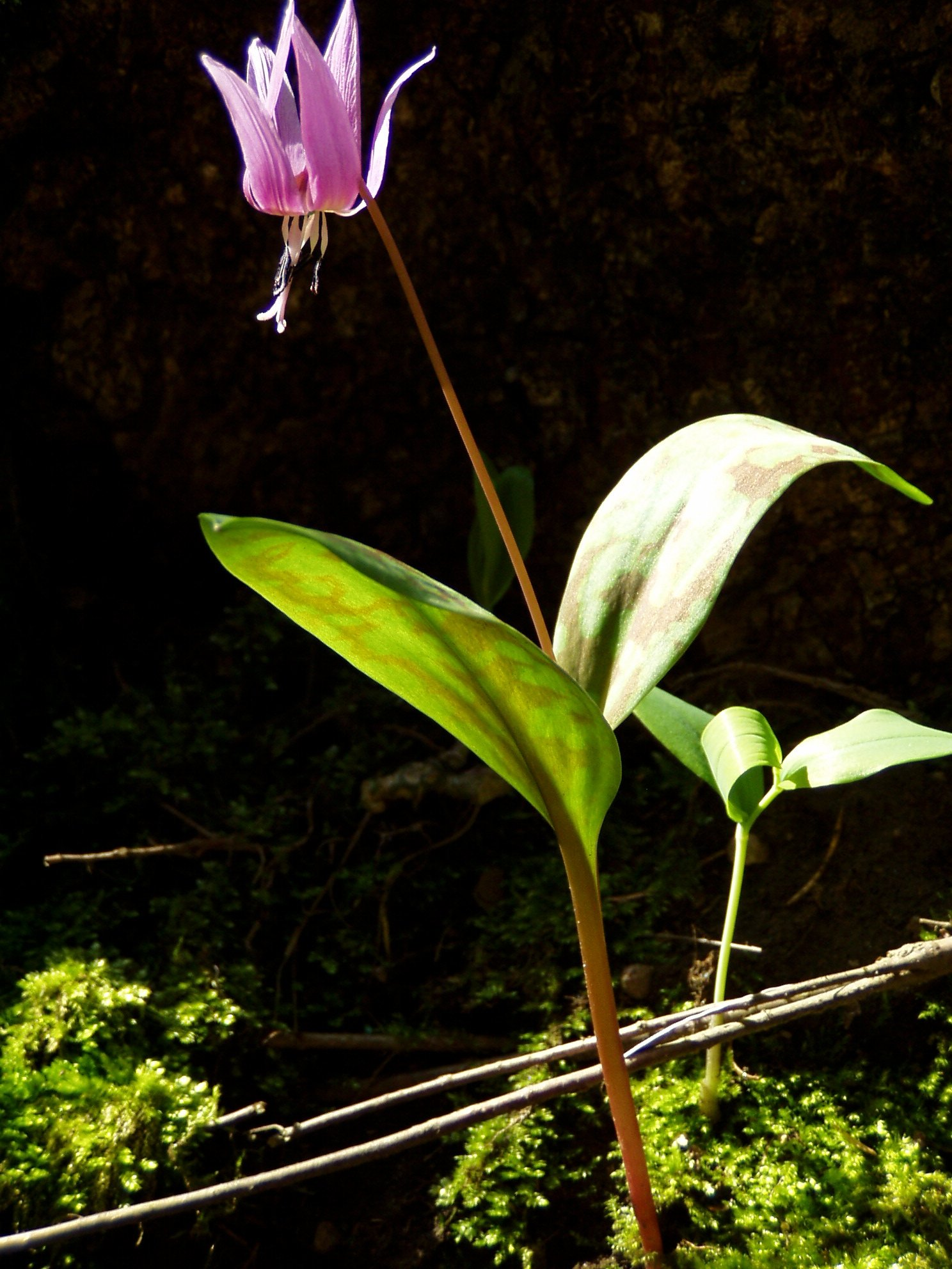 Hunds-Zahnlilie / Erythronium dens-canis L. from Carinthia/Austria